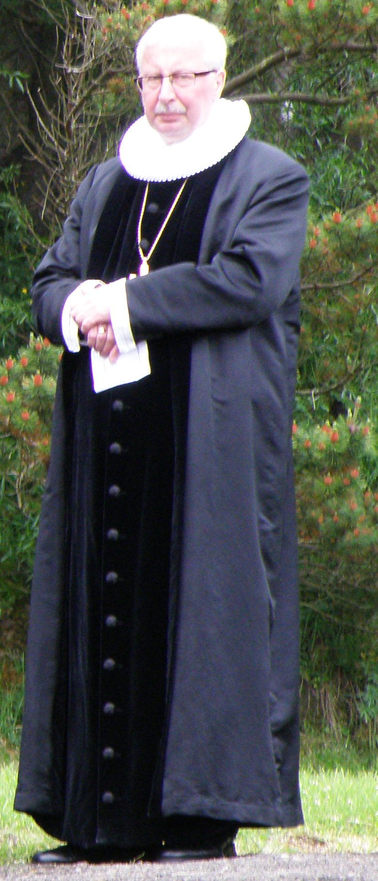 Jógvan Fríðriksson is the first bishop of the independent Faroese National Church. The church used to be Danish, but now it is Faroese. This photo was taken at a memorial service in Vágur, Faroe Islands, in memory of the seamen who lost their lives during World War II. The Faroe Islands actually lost more people than Denmark did, even if the islands did not take active part of the war. The sea men were at great risk transporting fish from Iceland to the UK, and many lost their lives. Especially many ships from the village Vágur went missing during the WW2, some of war reasons other by other kinds of accidents. Nine ships went missing from the small village Vágur. The population of the village today (2012) is around 1400. Føroyskt: Jógvan Fríðriksson er føroyskur bispur. Hann er fyrsti føroyski bispurin yvirhøvur, síðan fólkakirkjan í Føroyum bleiv føroysk. Henda myndin varð tikin við Minnisvarðan í Vági til hátíðarløtu til minnis um teir menn sum lótu lív undir Seinna Heimsbardaga við teimum 9 skipunum úr Vági, sum gingu burtur undir krígnum.